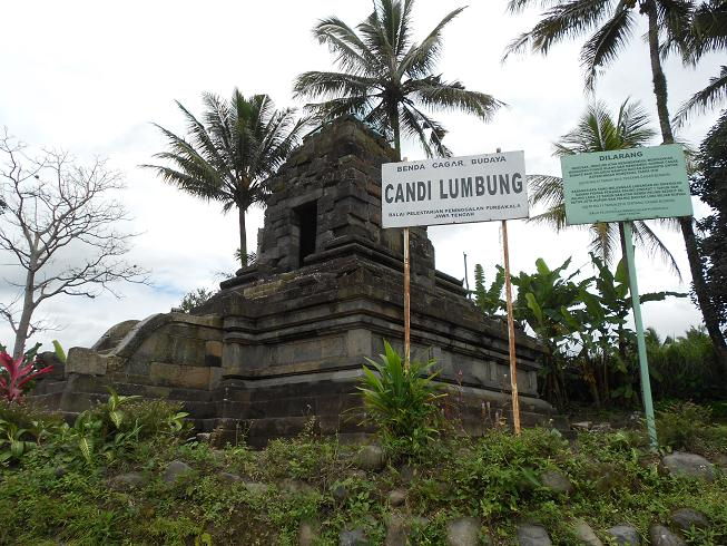 Candi Lumbung.